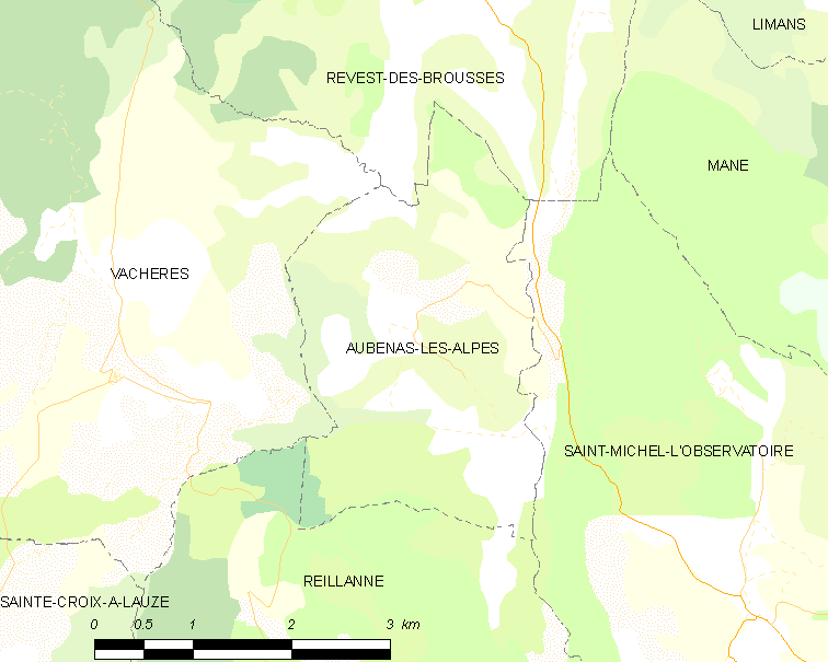 Map commune FR insee code 04012.png Légende